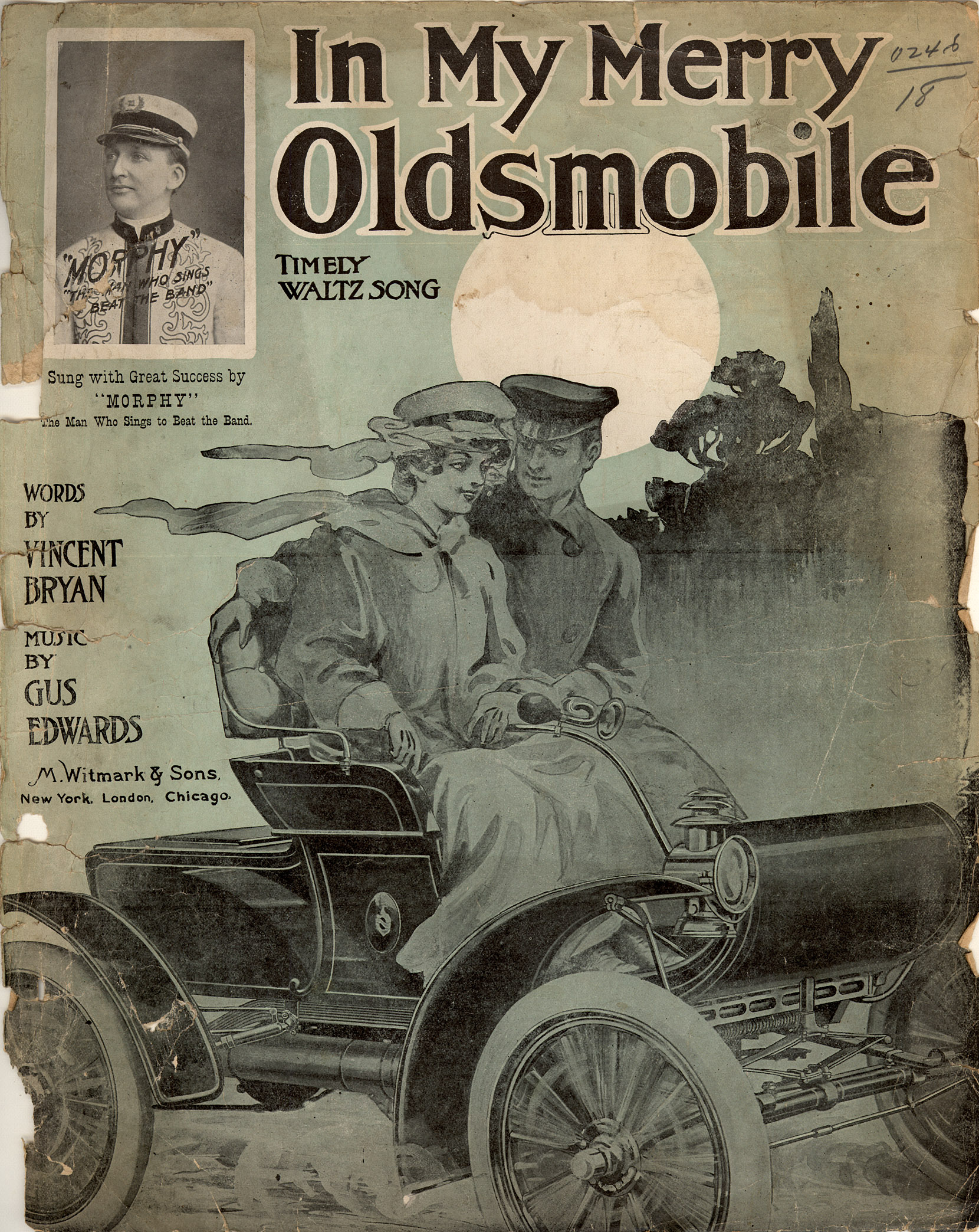 Sheet music cover of "In My Merry Oldsmobile" (Gus Edwards (music) and Vincent Bryan (lyrics)) featuring an Oldsmobile Curved Dash automobile. A photograph of singer Bert Morphy is in the upper left.